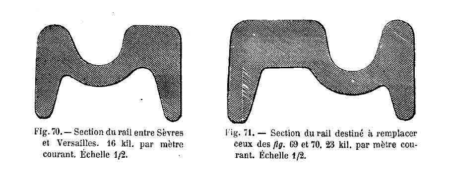 Cross section of rail designed to carry both flanged wheeled and flat wheeled vehicles. Rail used by the tramway between Sèvres and Versailles.